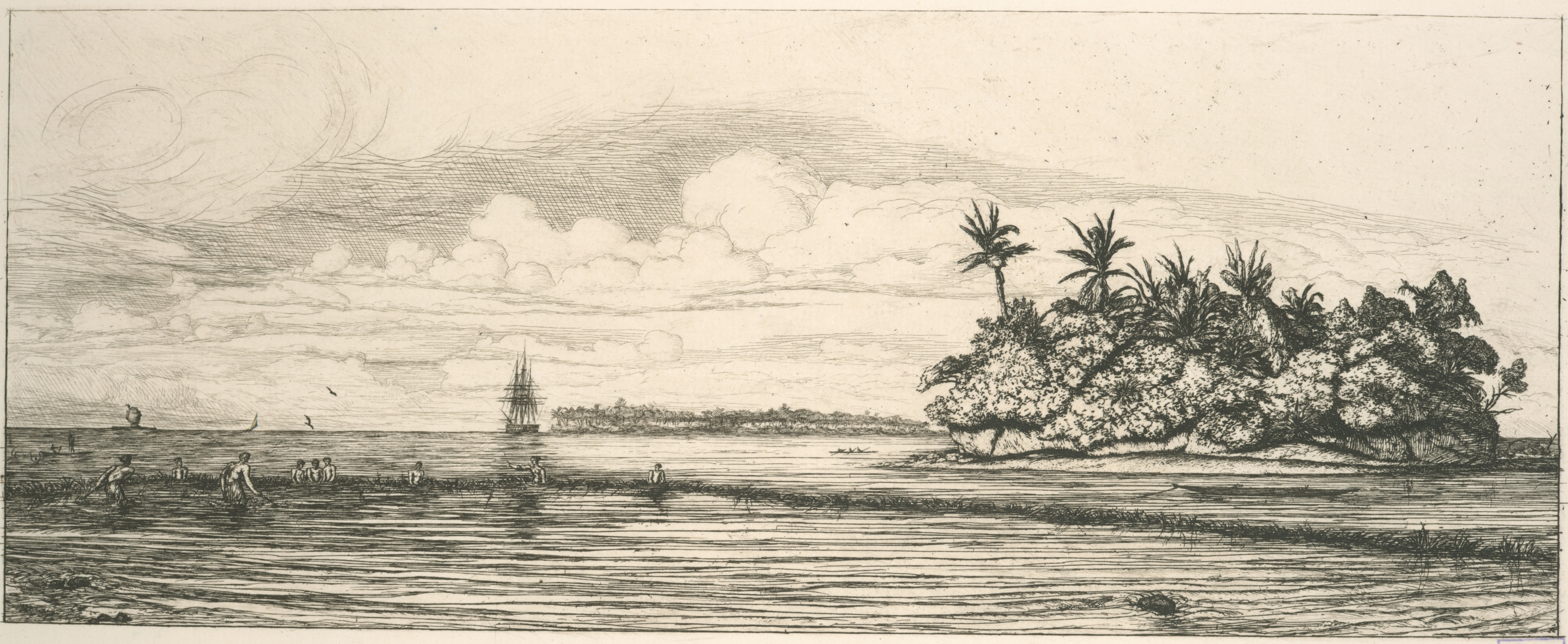 "Palm fishing" in the lagoon of Wallis island (Uvea), engraving made by French artist Charles Méryon during his trip in the Pacific (1842-1846).